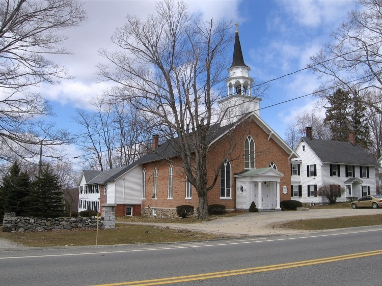 Episcopal Church, Sharon, Connecticut; part of the Sharon Center Historic District.